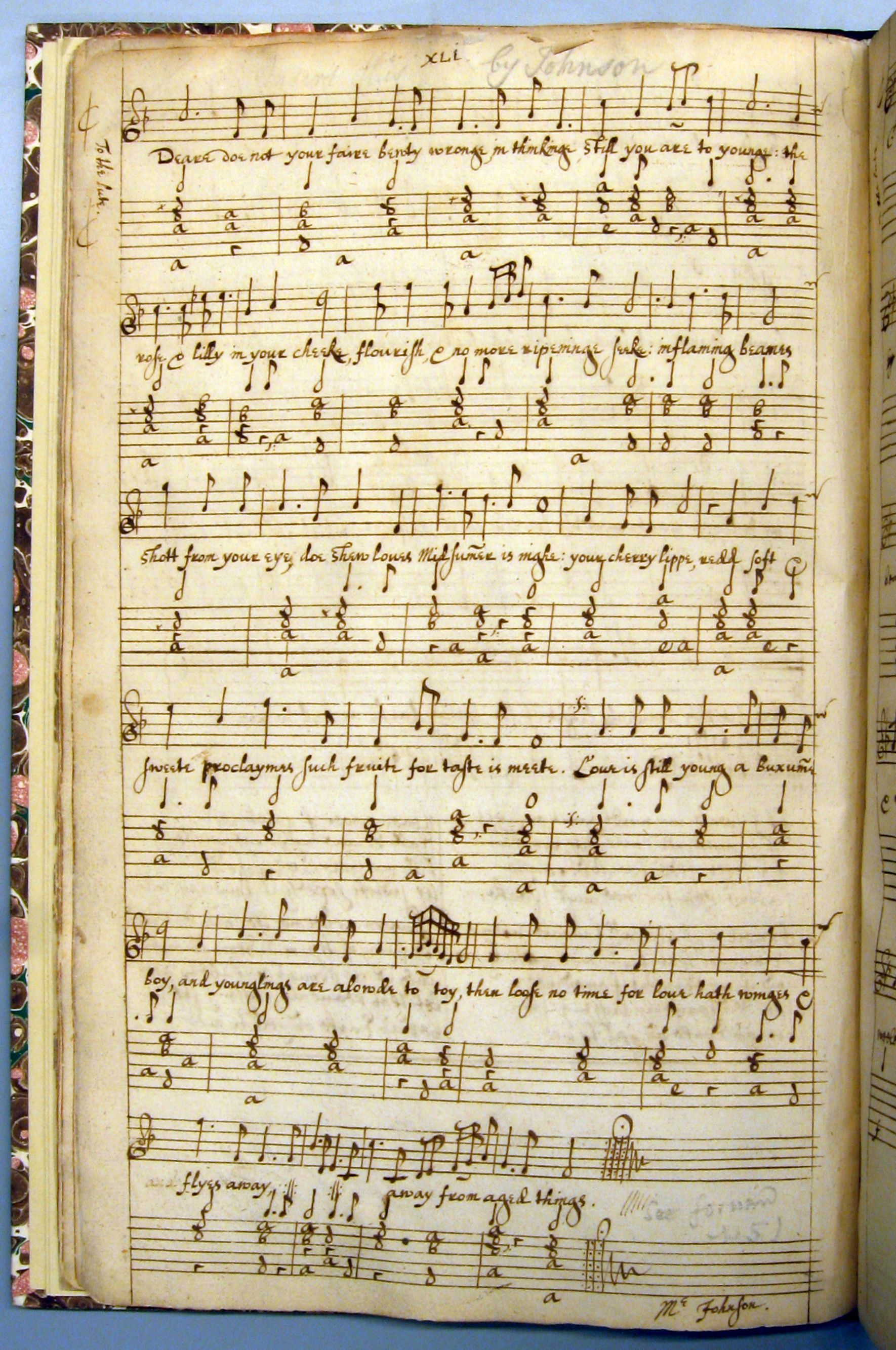 "Deare doe not your faire beuty wronge," music by Robert Johnson, text by Thomas May from the play The Old Couple (1636); accompaniment written in lute tablature; from Drexel 4175, a music manuscript which is an important source for seventeen-century English song, belonging to the New York Public Library. This is the only song in the manuscript with authorial ascription.